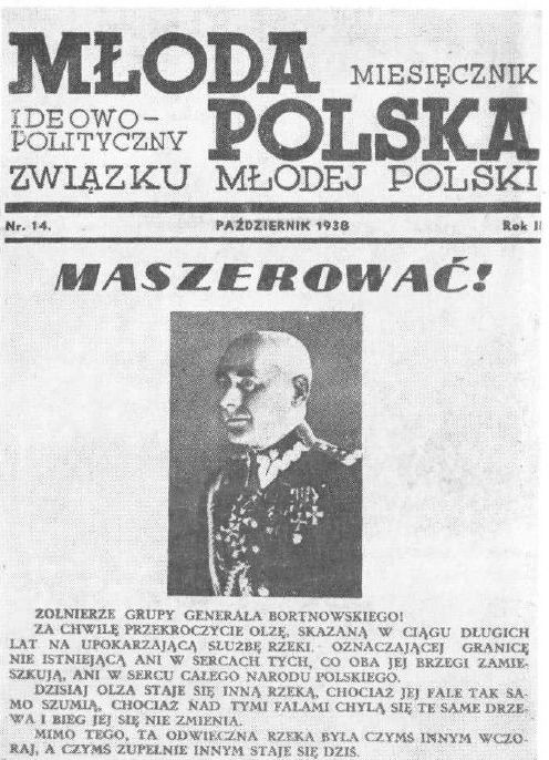 Marshall Edward Rydz-Śmigły and his order: Maszerować! (March On!) in Polish newspaper Młoda Polska (Young Poland) form 1938.